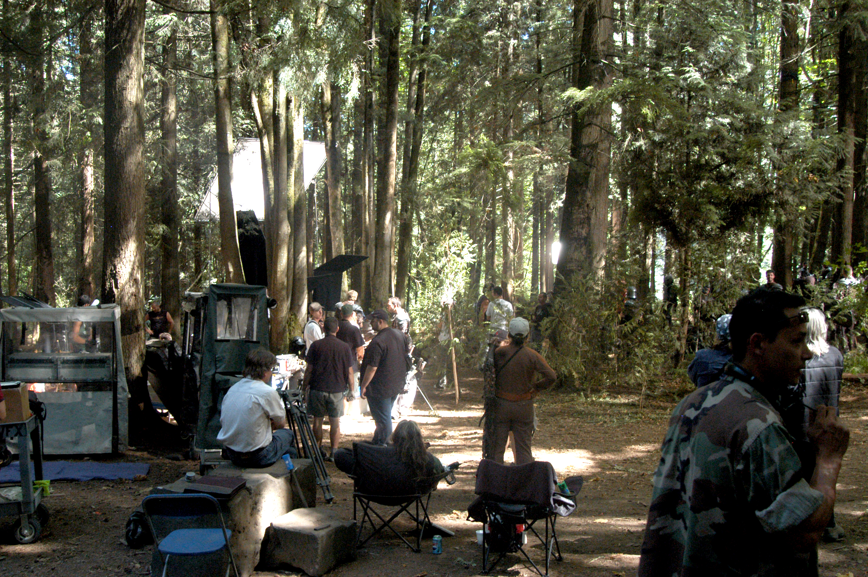 Set of the film "In the Name of the King: A Dungeon Siege Tale" in Robert Burnaby Park The film was shot there between July 25th and August 12th 2005.